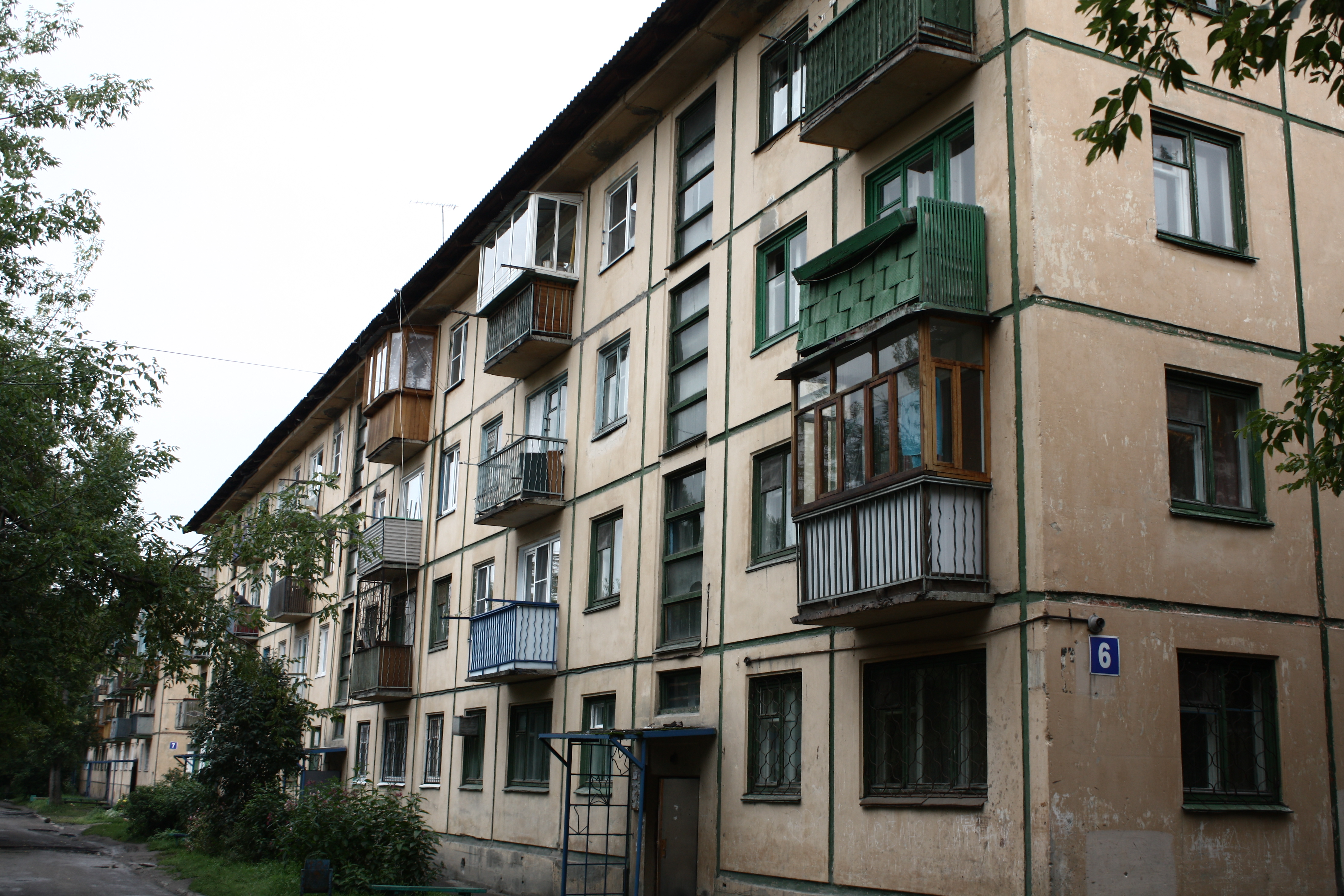 Photo of the side of the building No6 in Block No3, Shelekhov, Irkutsk Oblast, Russia. Shows the architecture of the city of Shelekhov.